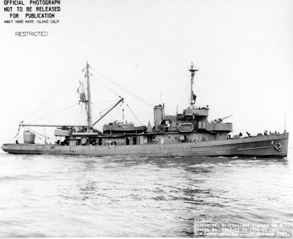 United States Navy submarine rescue vessel off San Francisco, California.